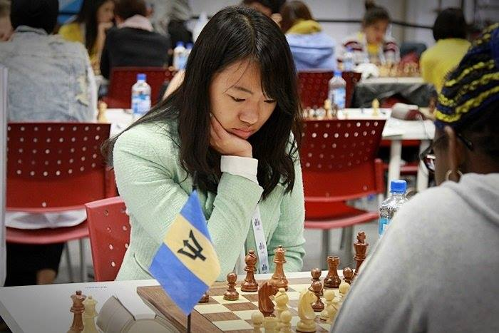 Yuanling Yuan, Women International Master, represents Canada on Board 1 at the 2014 World Chess Olympiad